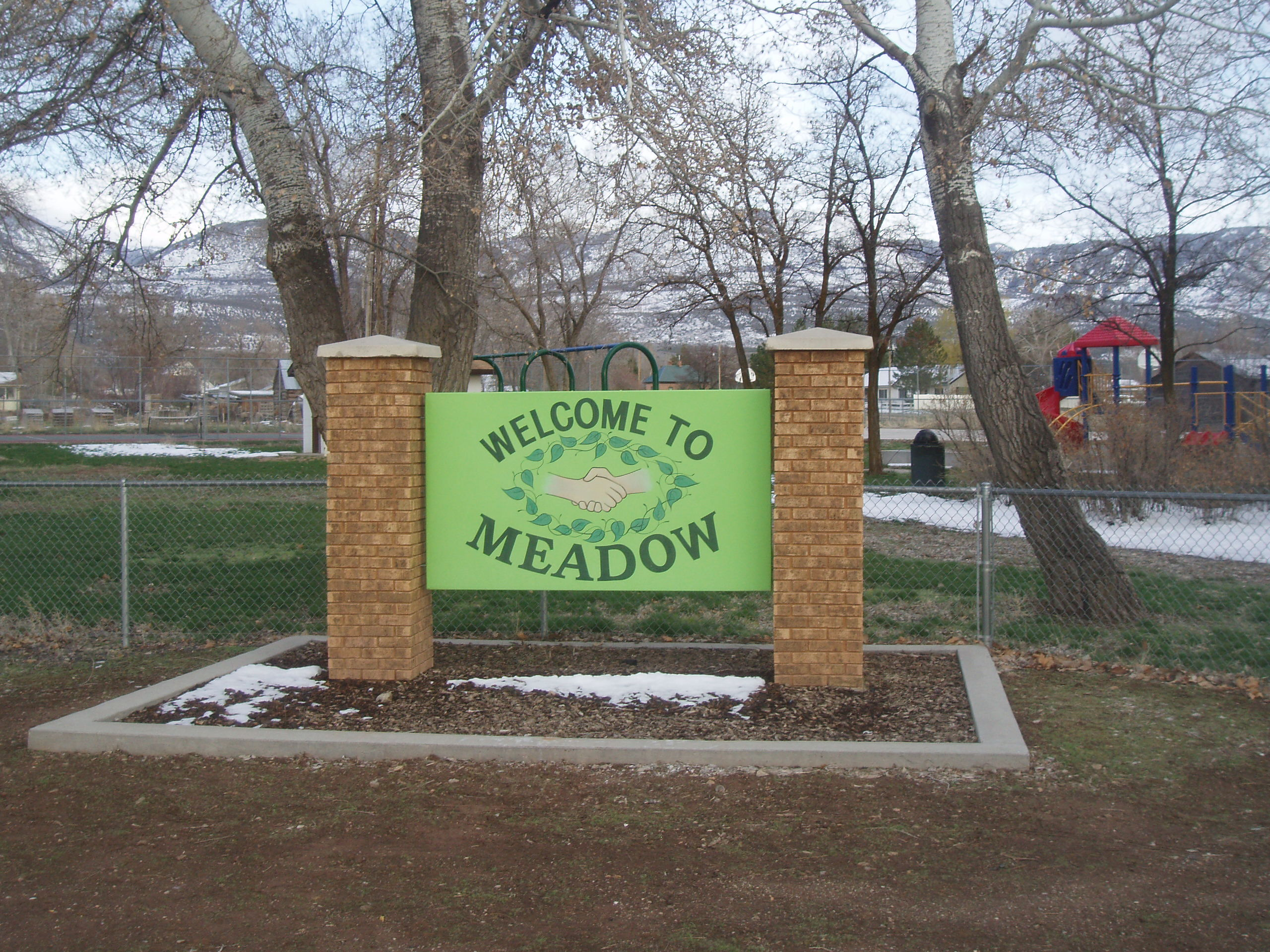 Welcome sign in Meadow, Utah, United States.